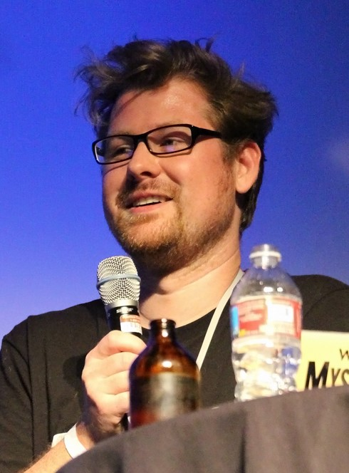 Justin Roiland at the 2015 XOXO festival in Portland, Oregon.